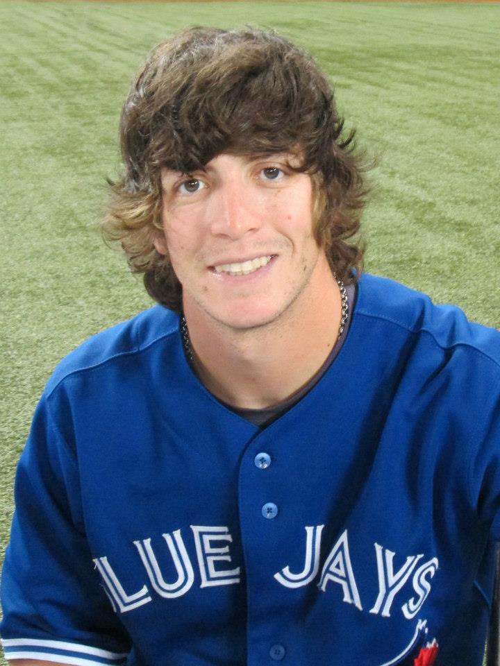 This is a photograph of Colby Rasmus, taken while he was signing autographs in the stadium in 2012.